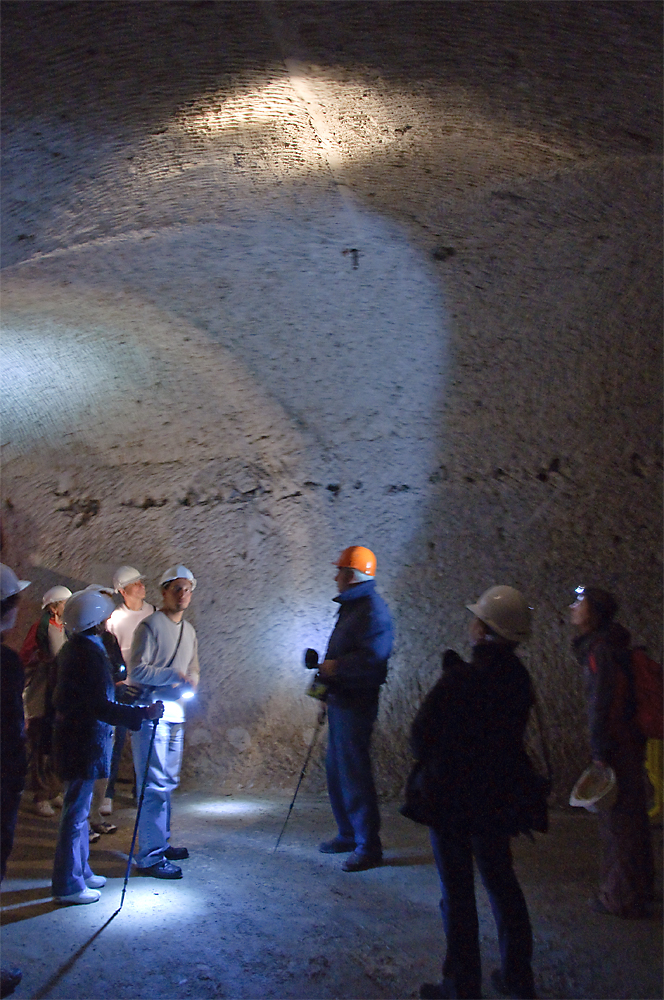 Visiting the former chalk quarries in Meudon, Hauts-de-Seine, France, during European Heritage Days 2010.